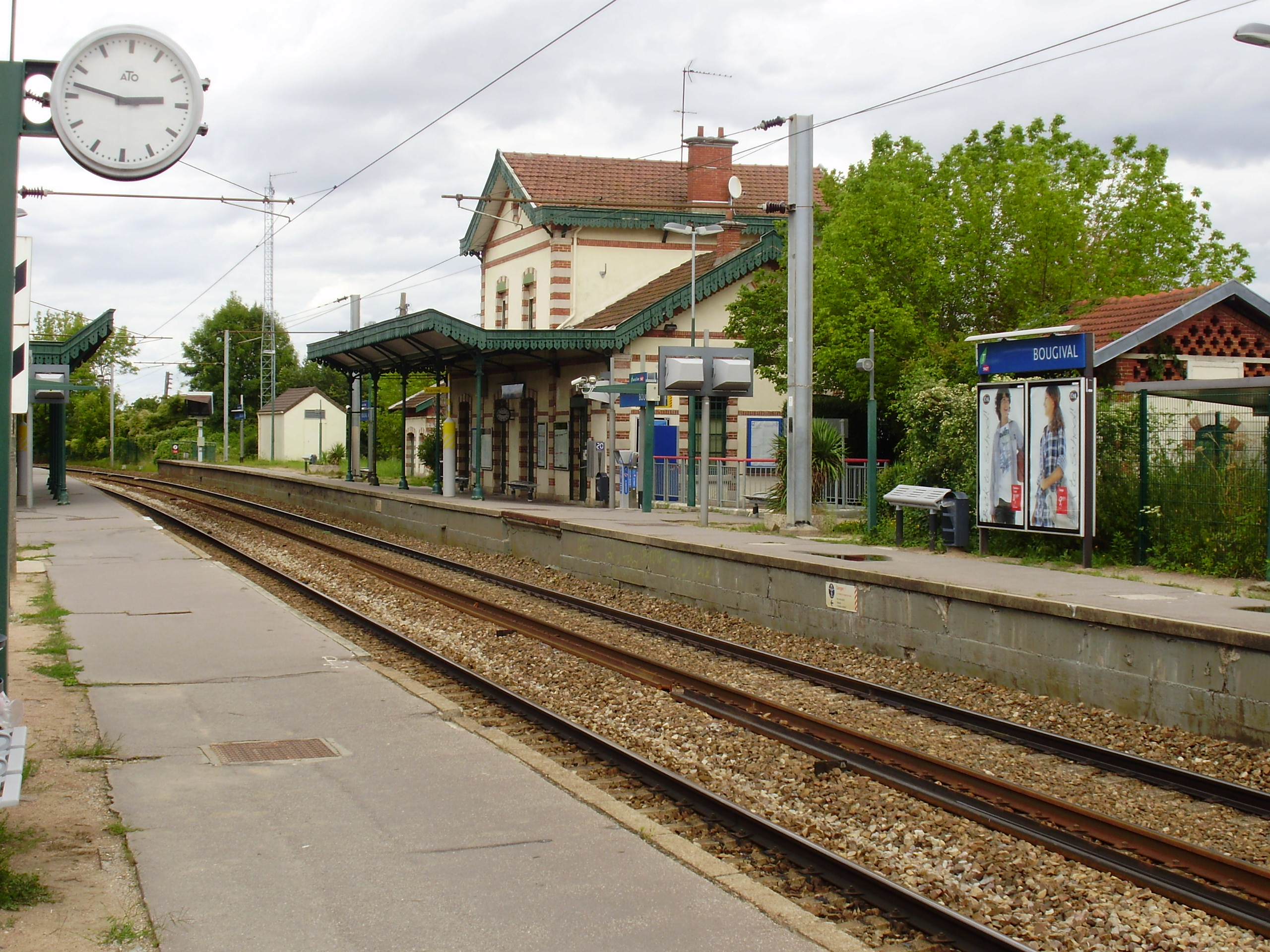 Bougival station, in La Celle-Saint-Cloud, Yvelines, France (view of the station building from the platform to Saint-Nom-la-Bretèche)